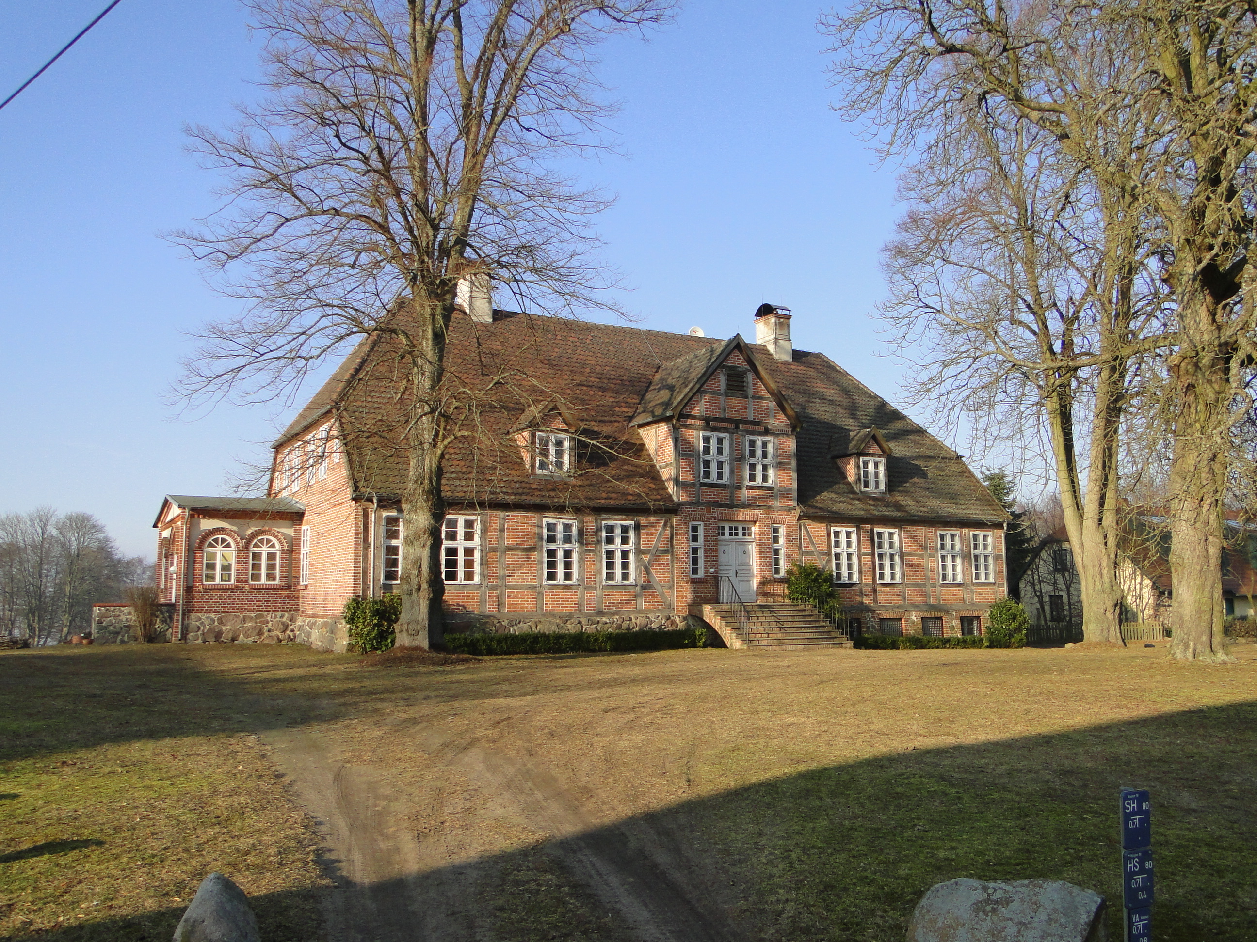 Manor house in Glave, district Güstrow, Mecklenburg-Vorpommern, Germany